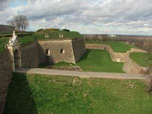 Author: Nenad Seguljev Category:Novi Sad images